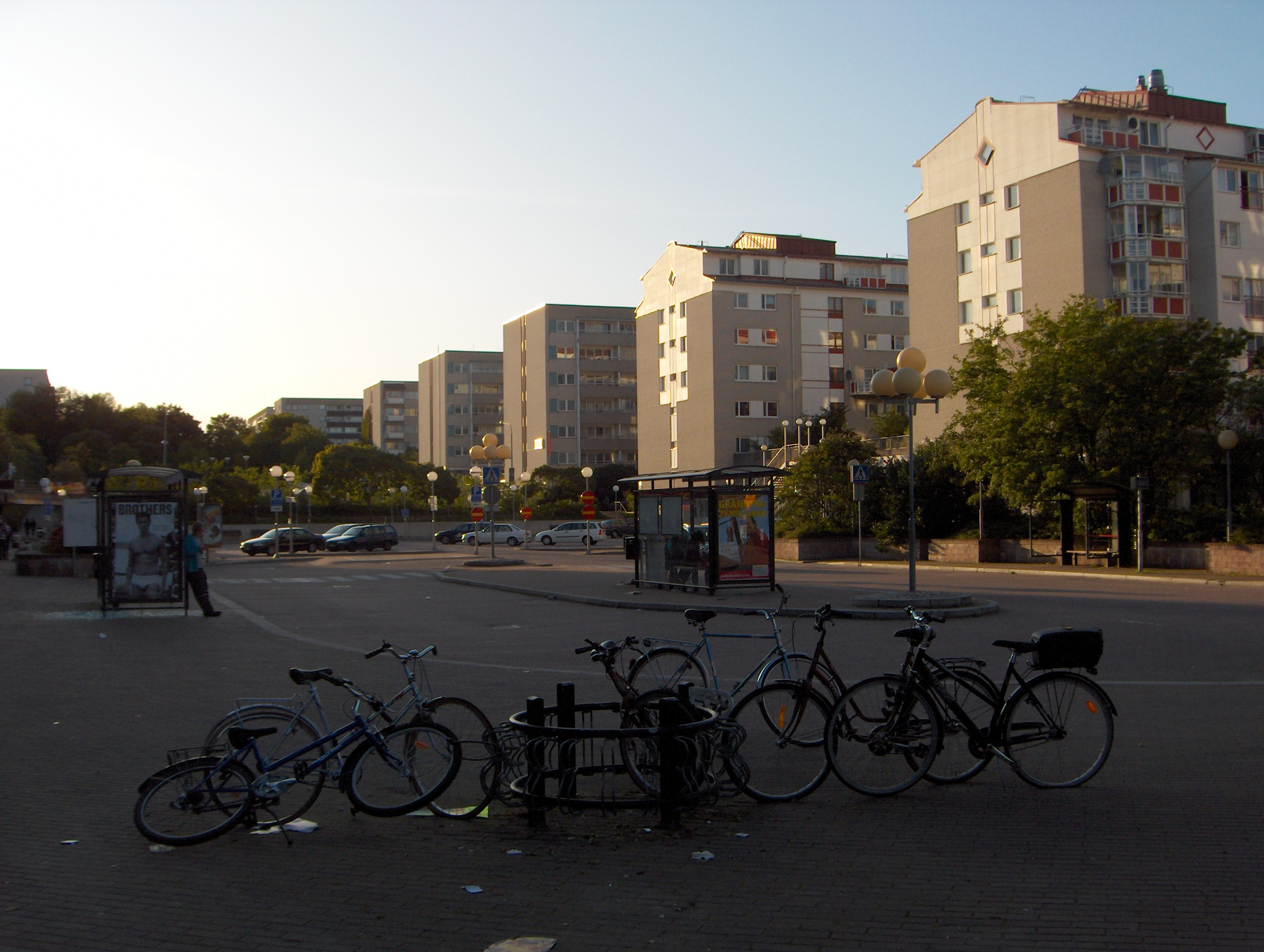 Hallonbergen, Sundbyberg municipality, Sweden, on August 30, 2009. The picture was shot from the square at the metro entrance.